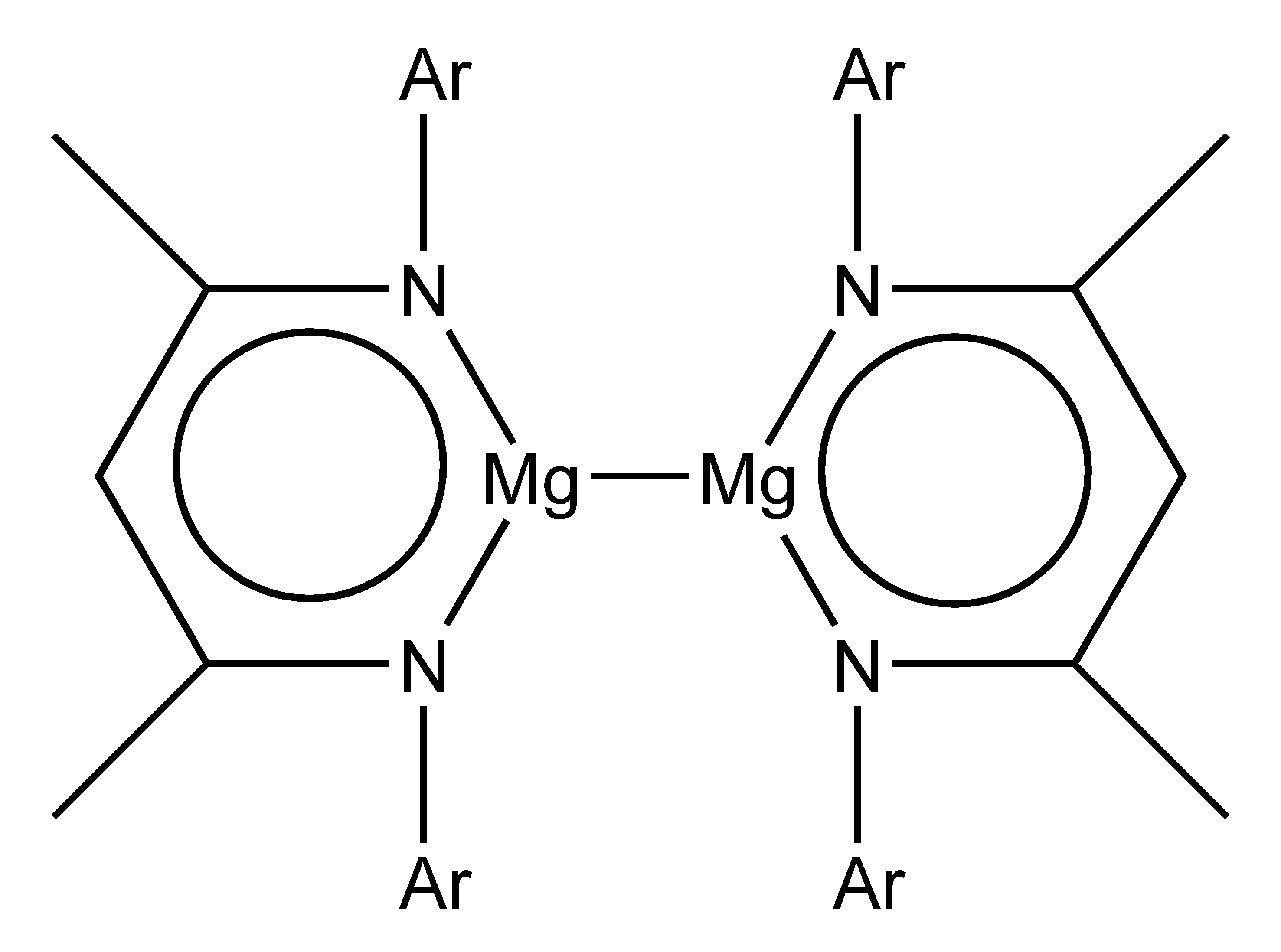 The structure of magnesium complex